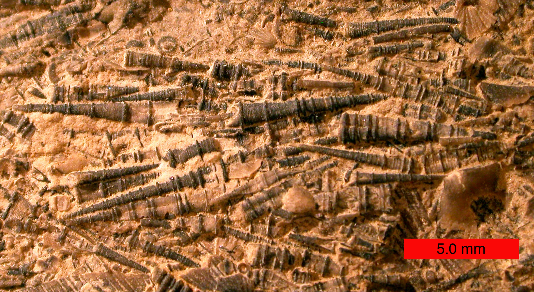 Tentaculitids from the Devonian of Maryland. Scale bar is 5.0 mm.